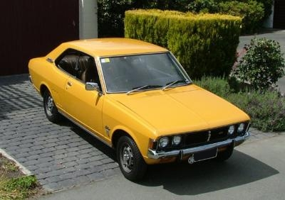 1973 Mitsubishi Galant 16L Fastback 2-door Coupé